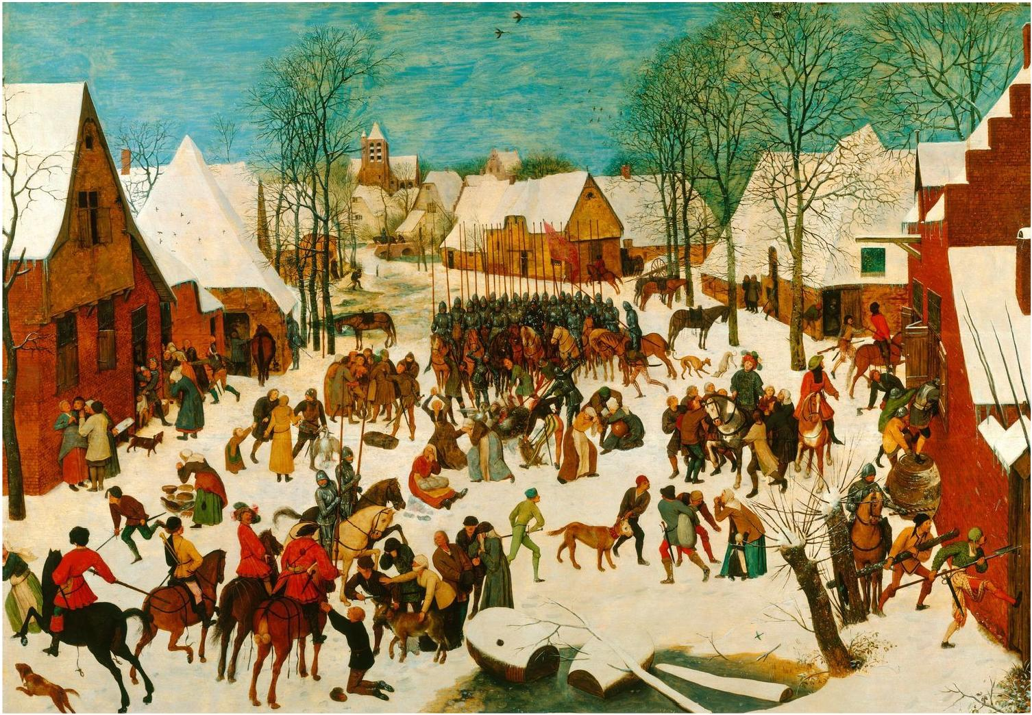 The Massacre of the Innocents